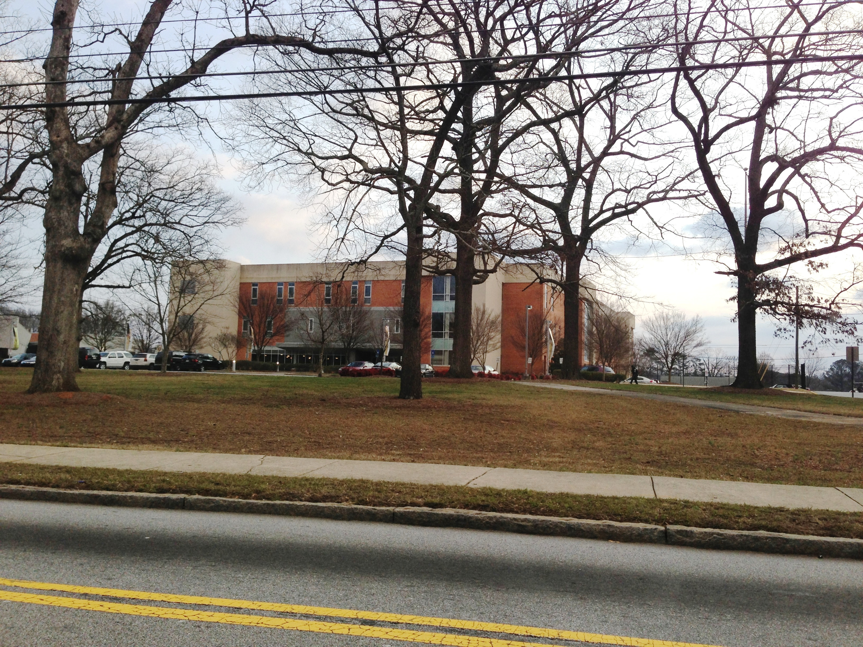 Photo on Douglass in winter 2013.